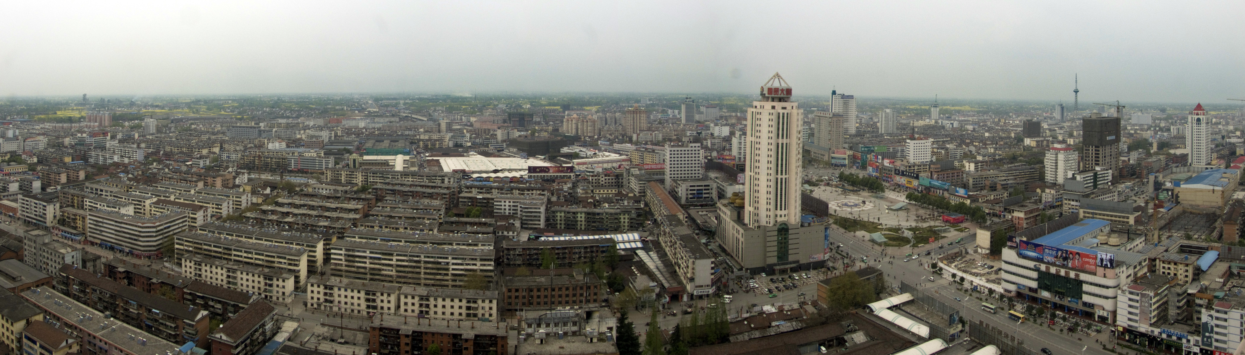 The north panorama of Hanzhong,Shannxi,China. 中文（中国大陆）: 汉中北部全景图，摄于2009年3月。